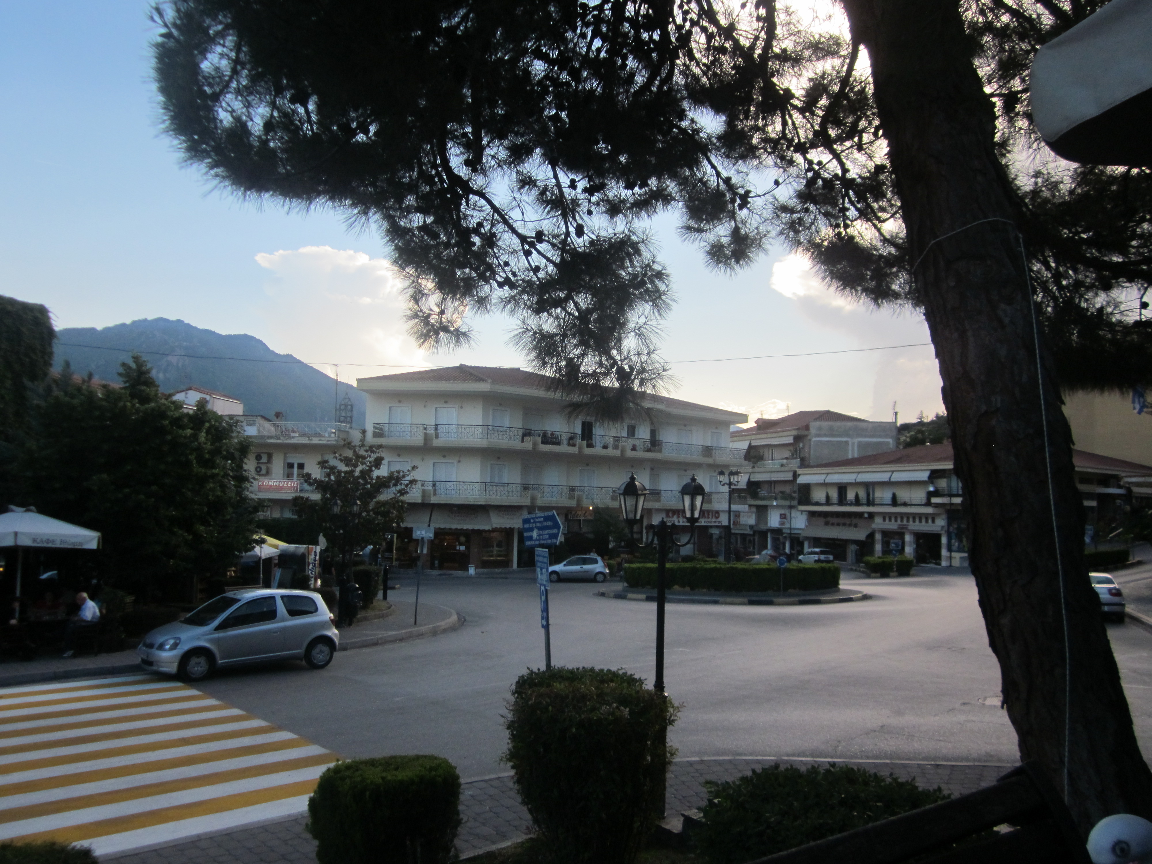 The center square of Kalambaka of Greece